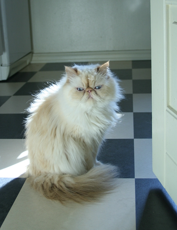 Cream point. 65.